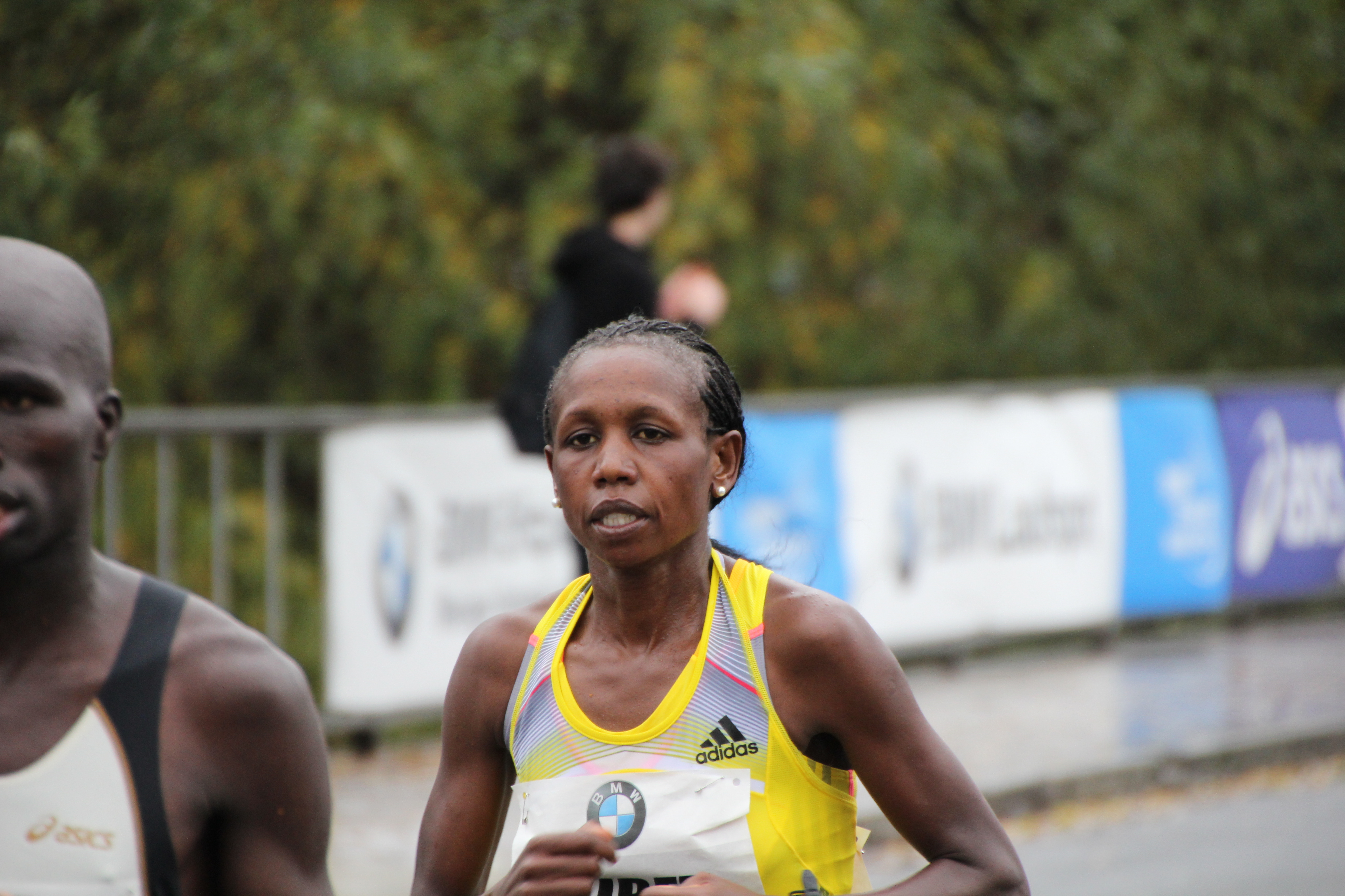 Hilda Kibet during Frankfurt Marathon, km 28.5, "Nied Brücke"